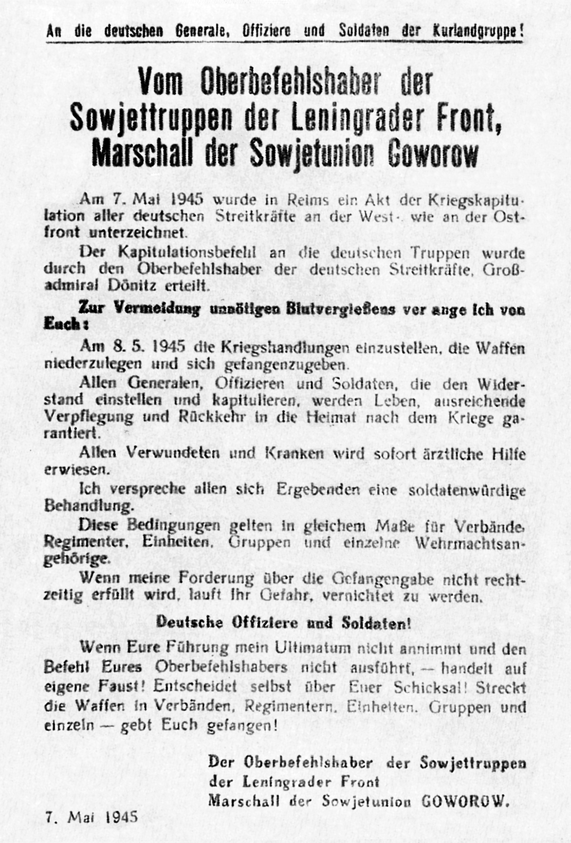 Soviet ultimatum to the Army Group Kurland. German language.